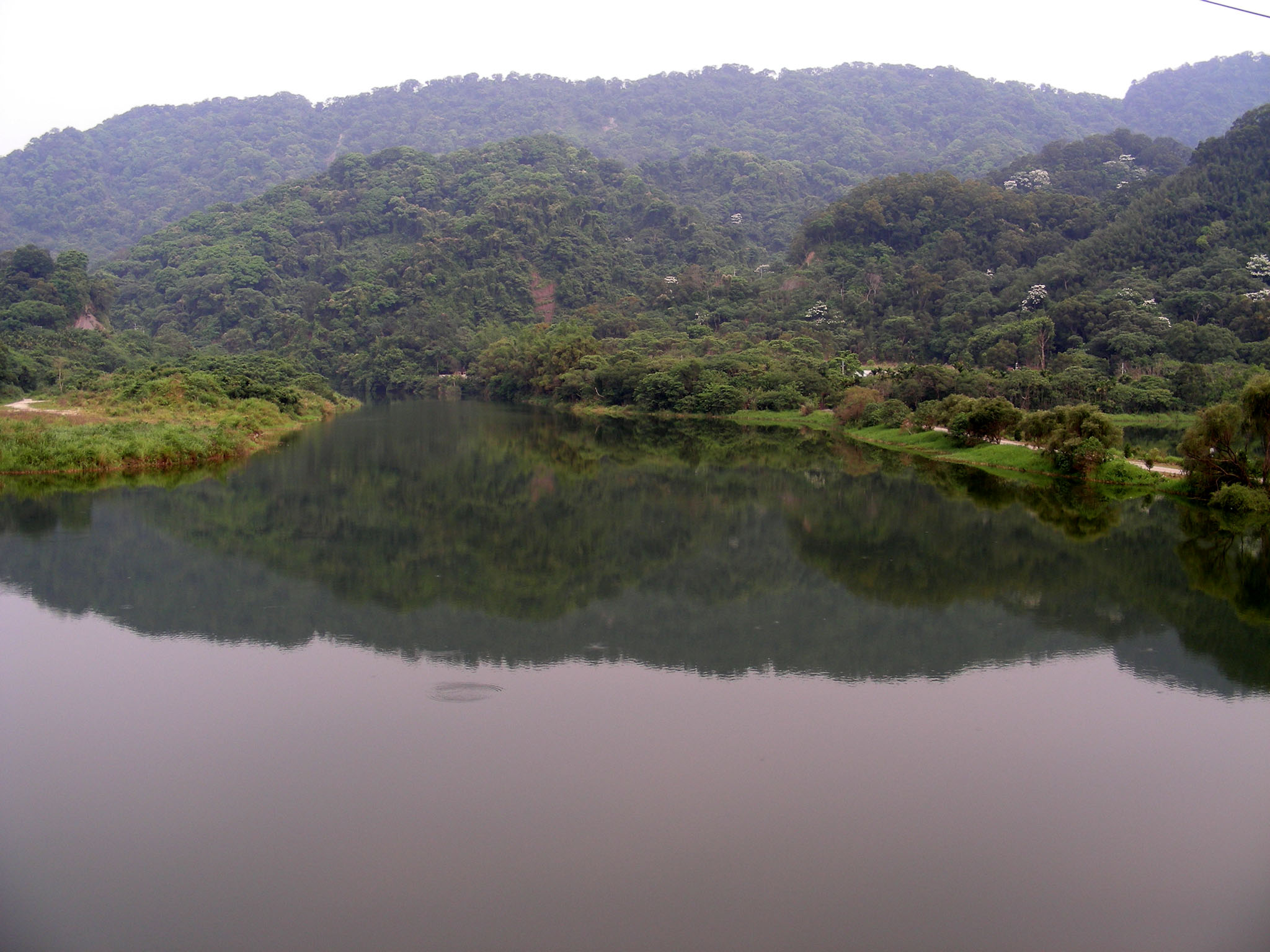 "Ming Te" Reservoir, Taiwan